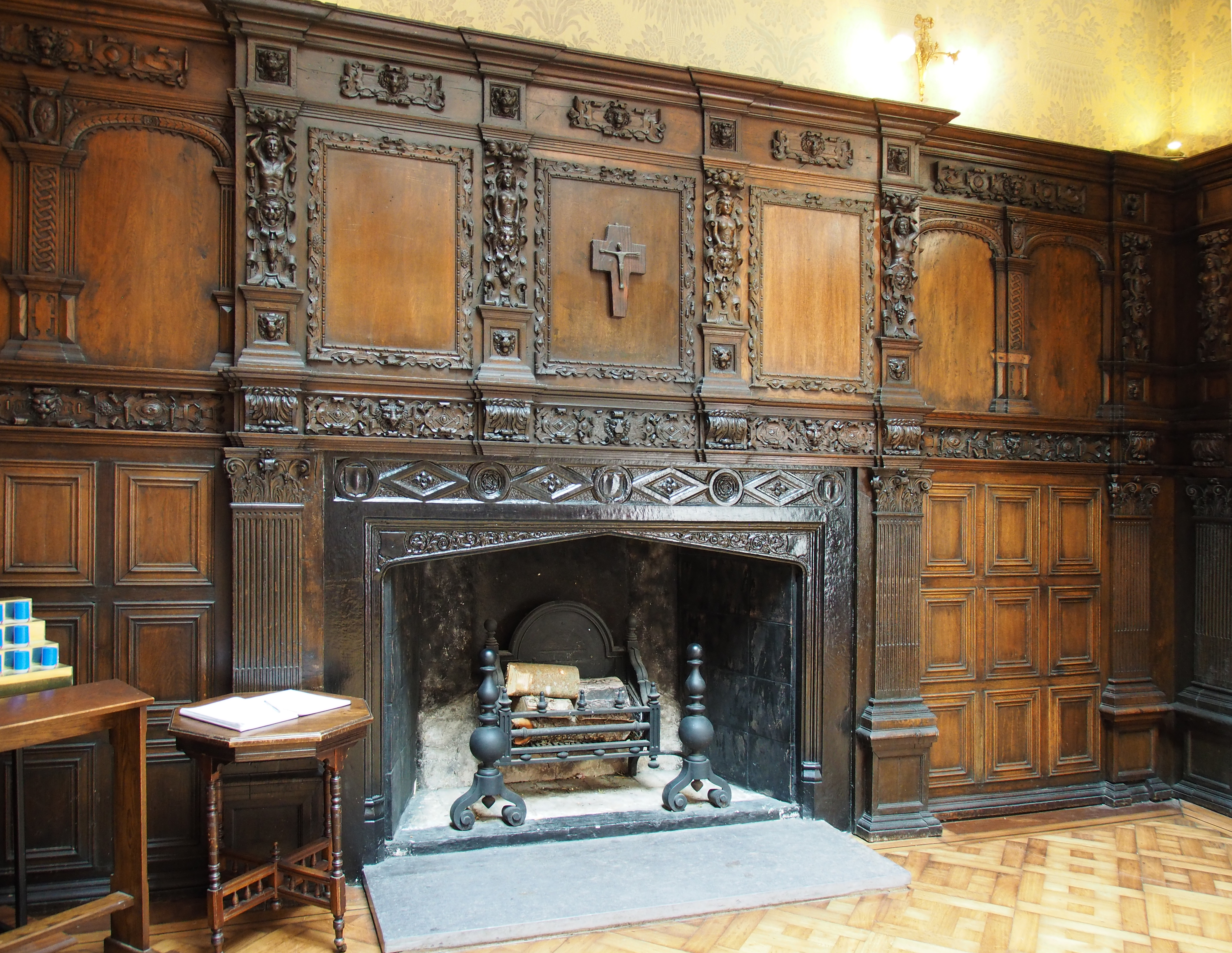 Kylemore Castle fireplace